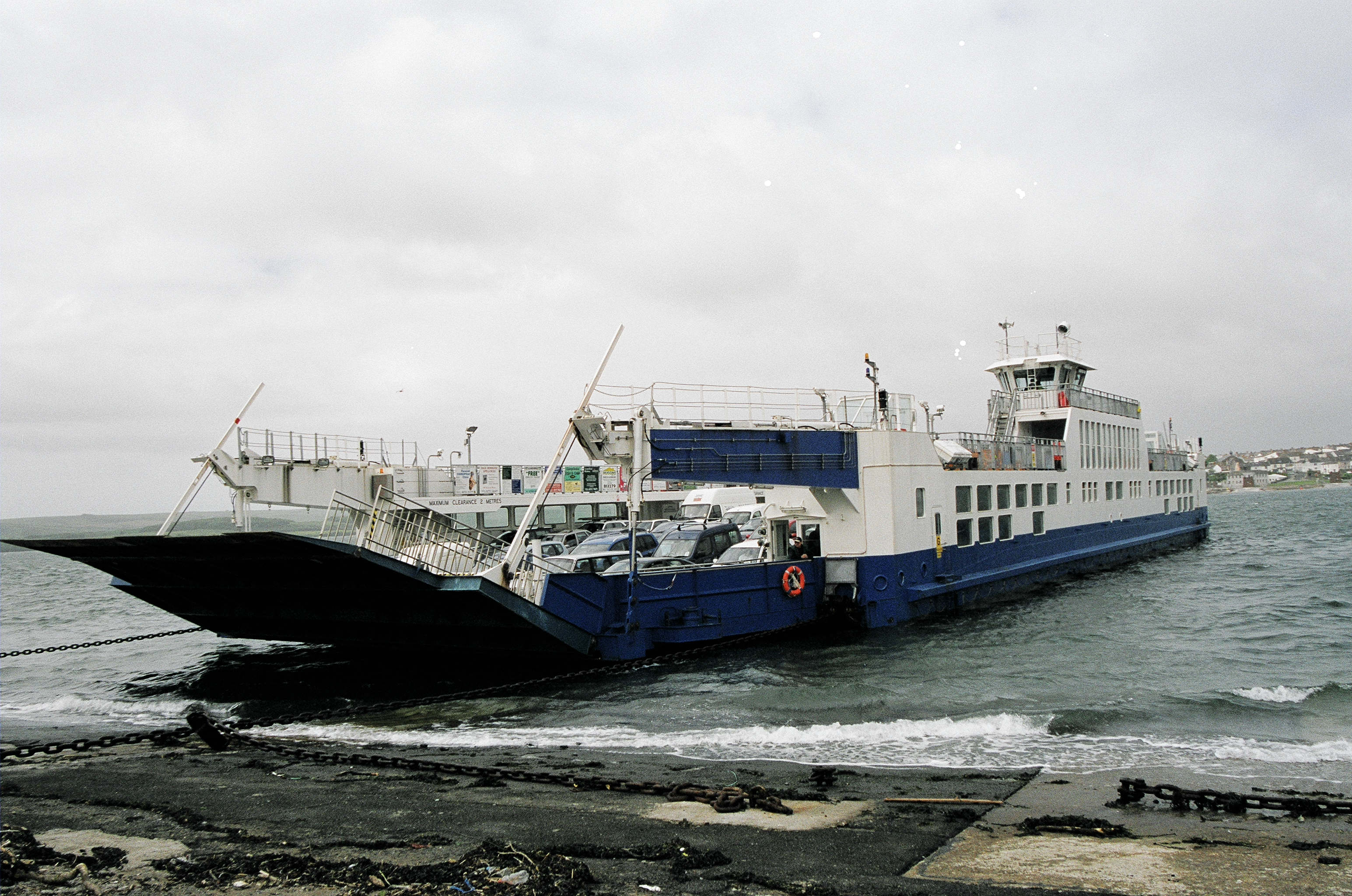 Plym II or Tamar II, one of the 2000s craft providing the Torpoint Ferry service